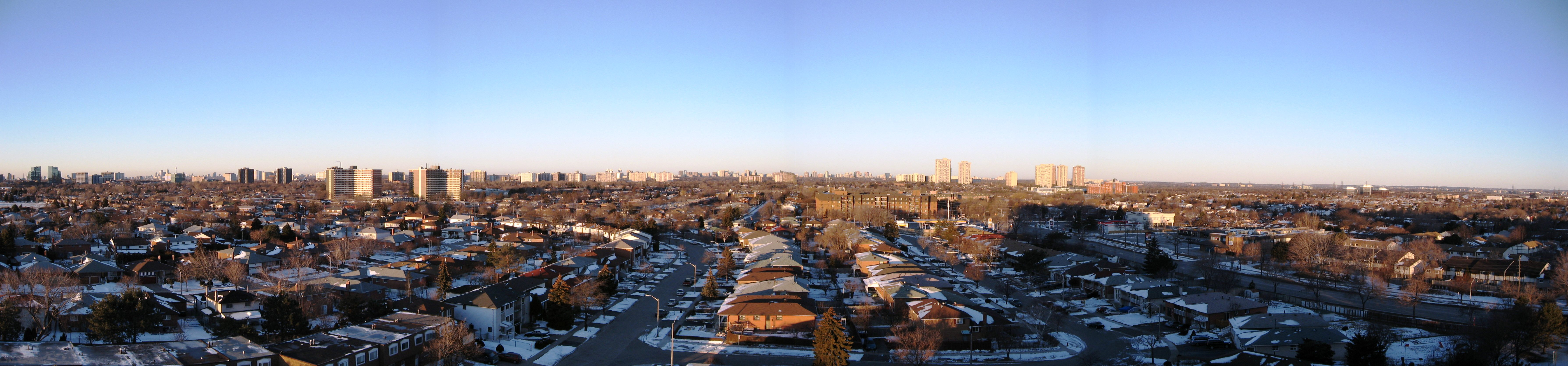 Panoramic view of western Scarborough, Ontario at dawn.